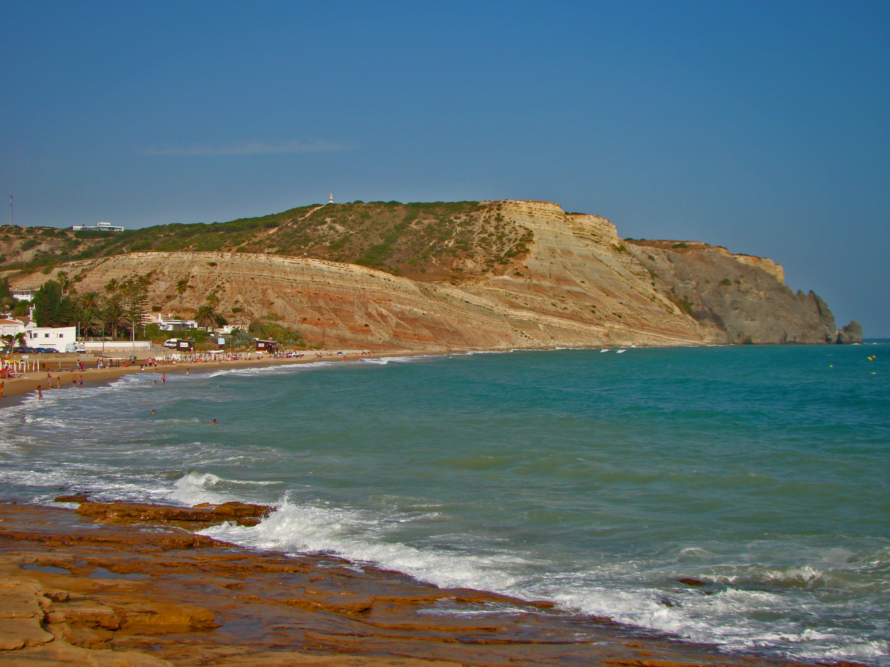 Praia da Luz beach